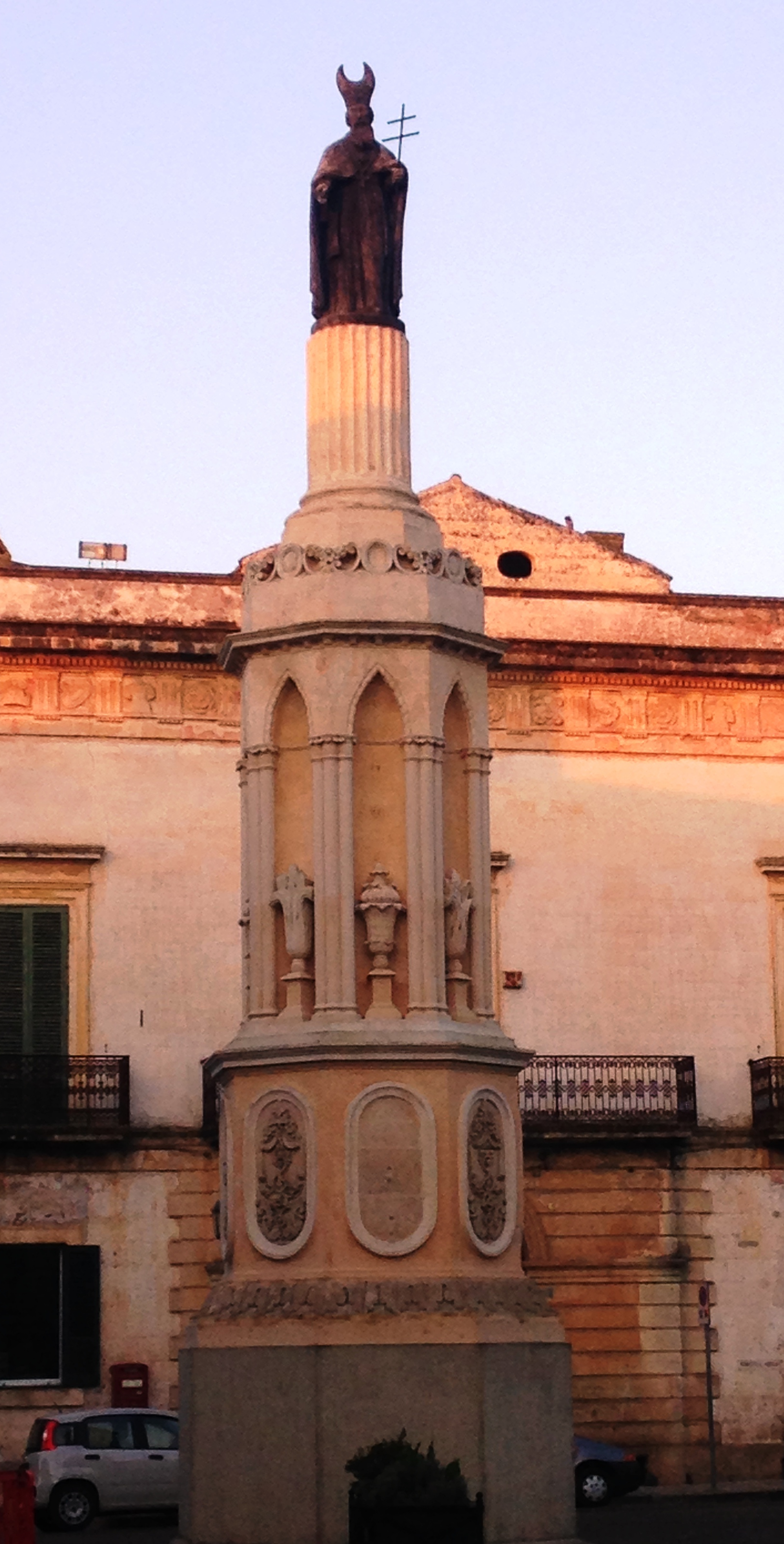 San Giovanni Elemosiniere column in Casarano, Province of Lecce - Apulia (Italy)